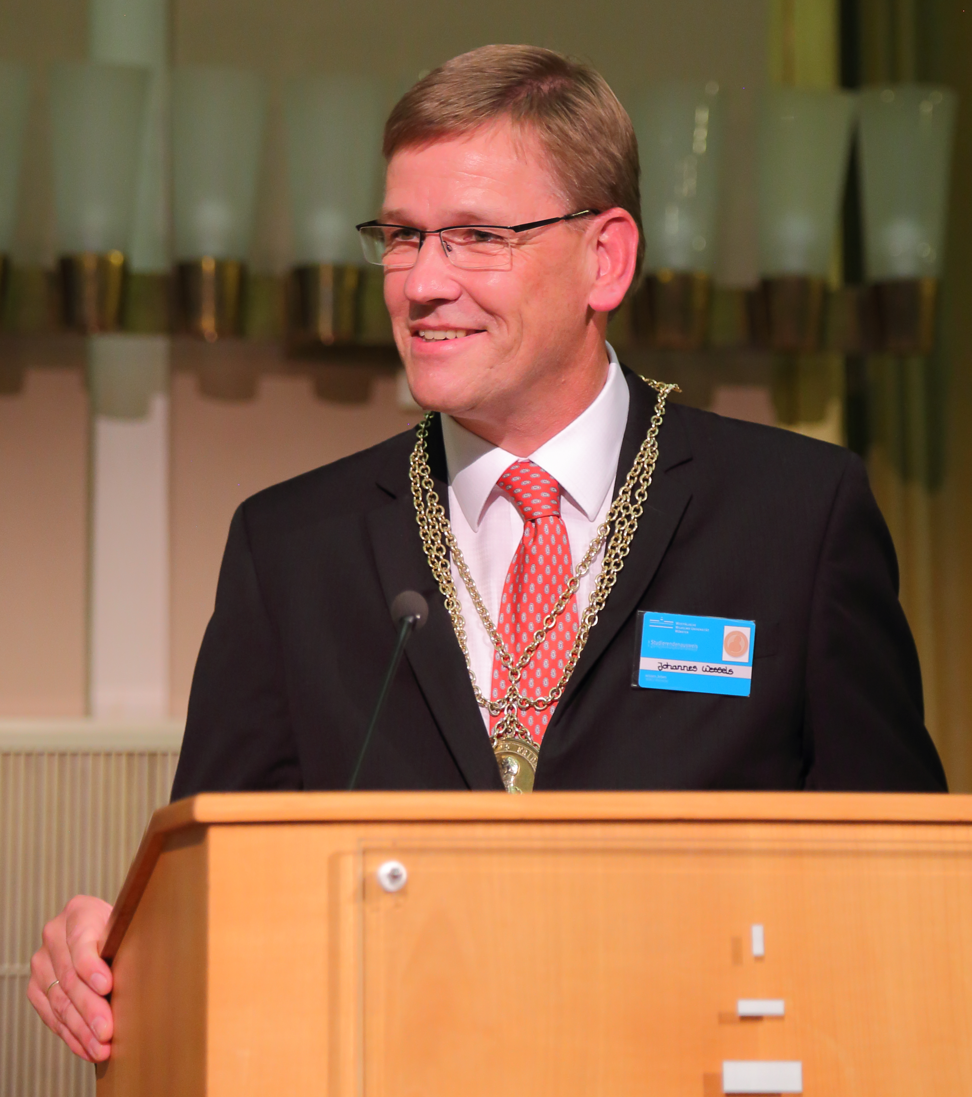 Change of the Rectorate ceremony at the auditorium of the University of Münster (Westfälische Wilhelms-Universität Münster) in Münster, North Rhine-Westphalia, Germany. Here German physicist Professor Dr. Johannes Wessels shortly after his inauguration as the University's new Rector.